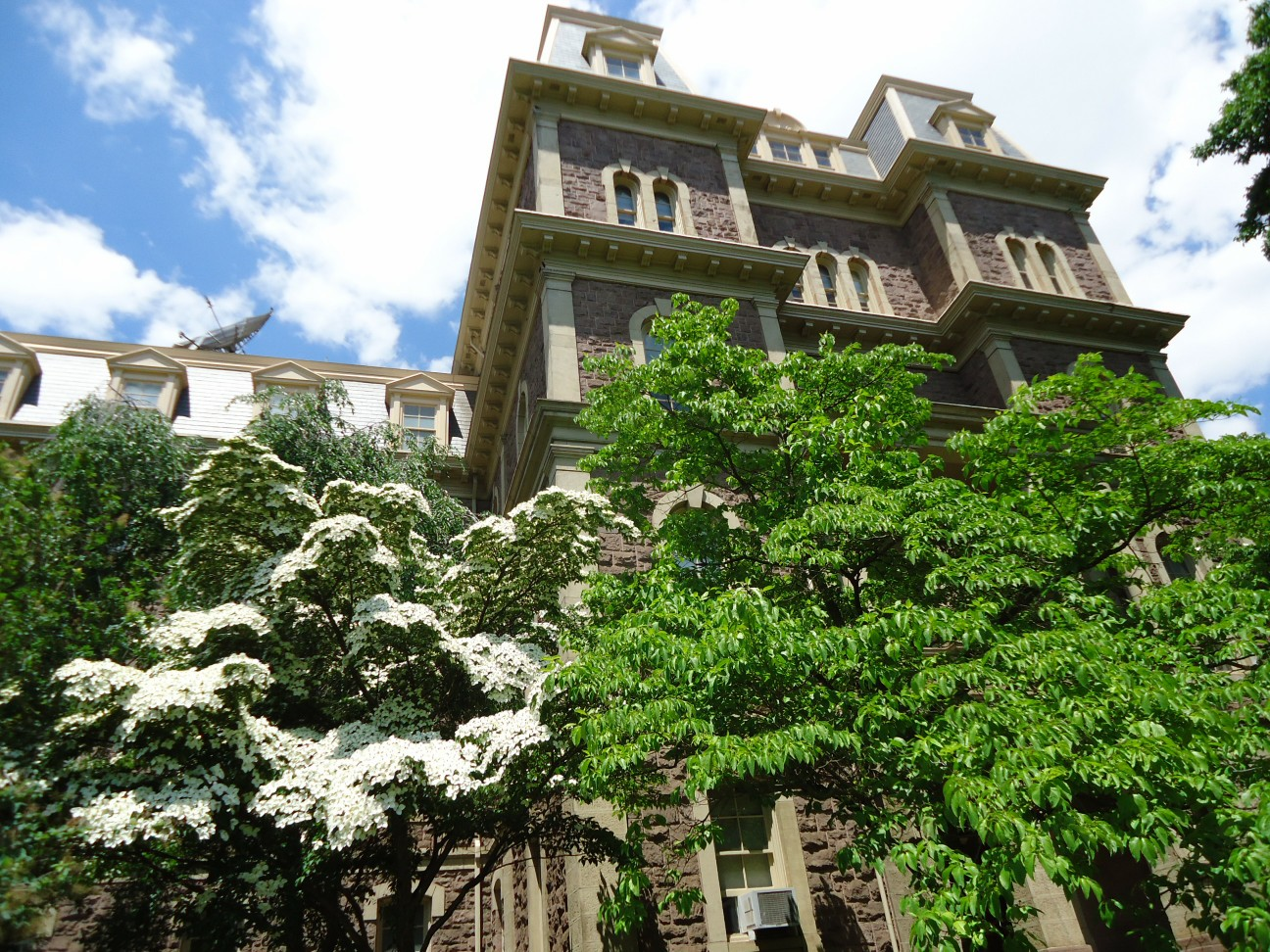 A photo from a campus tour of Lafayette College in Easton, Pennsylvania, on May 31, 2012 (correct date; 2011-06-01 is incorrect).